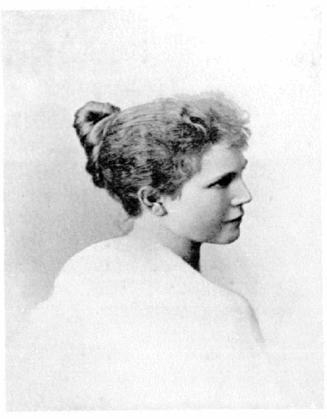 Lillian Harman (1870–1929), anarchist and daughter of Moses Harman.